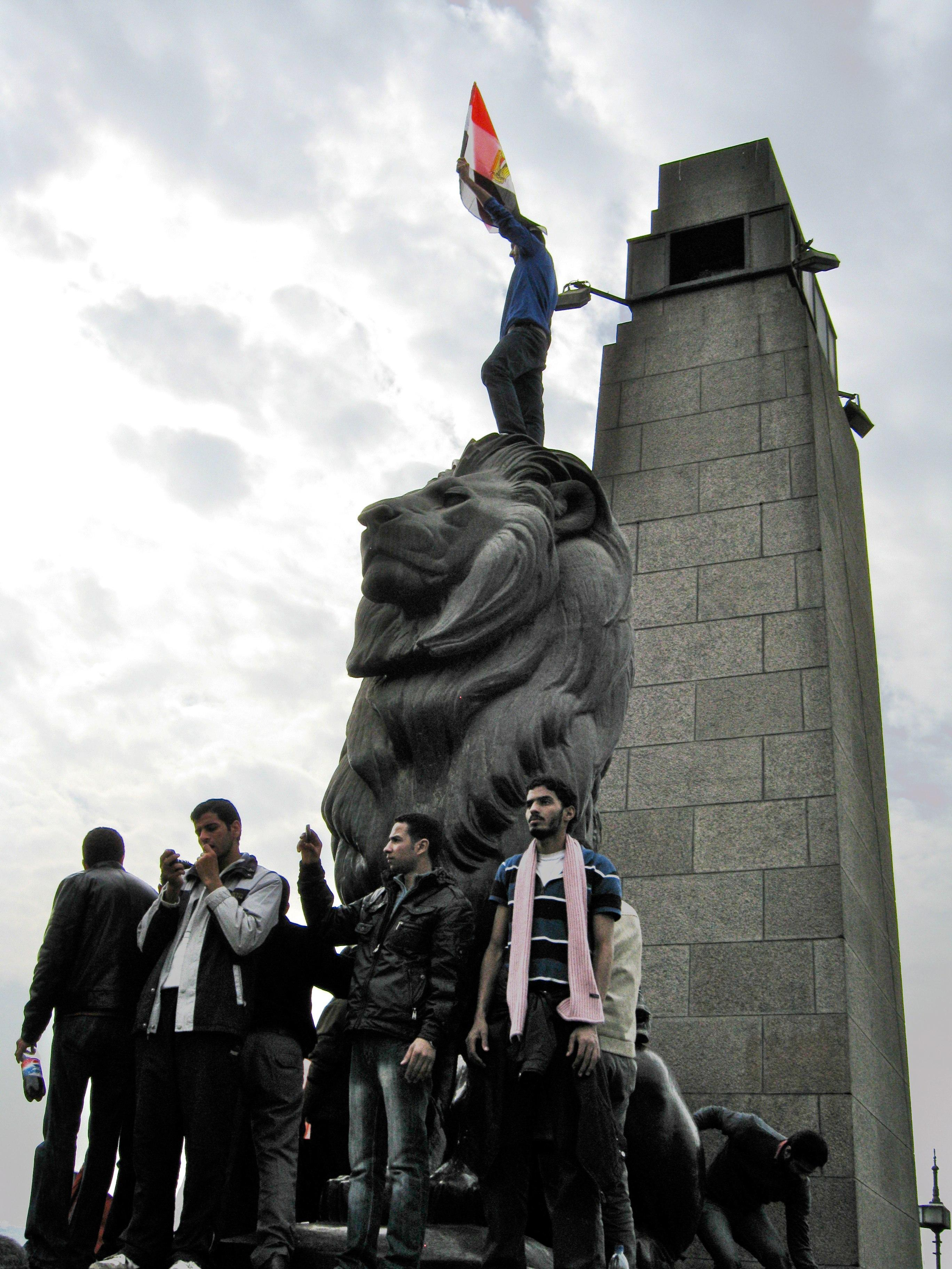 Demonstrations against Mubarak next to Tahrir Square (1st February, 2011)Lion statue in Qasr al-Nil Bridge